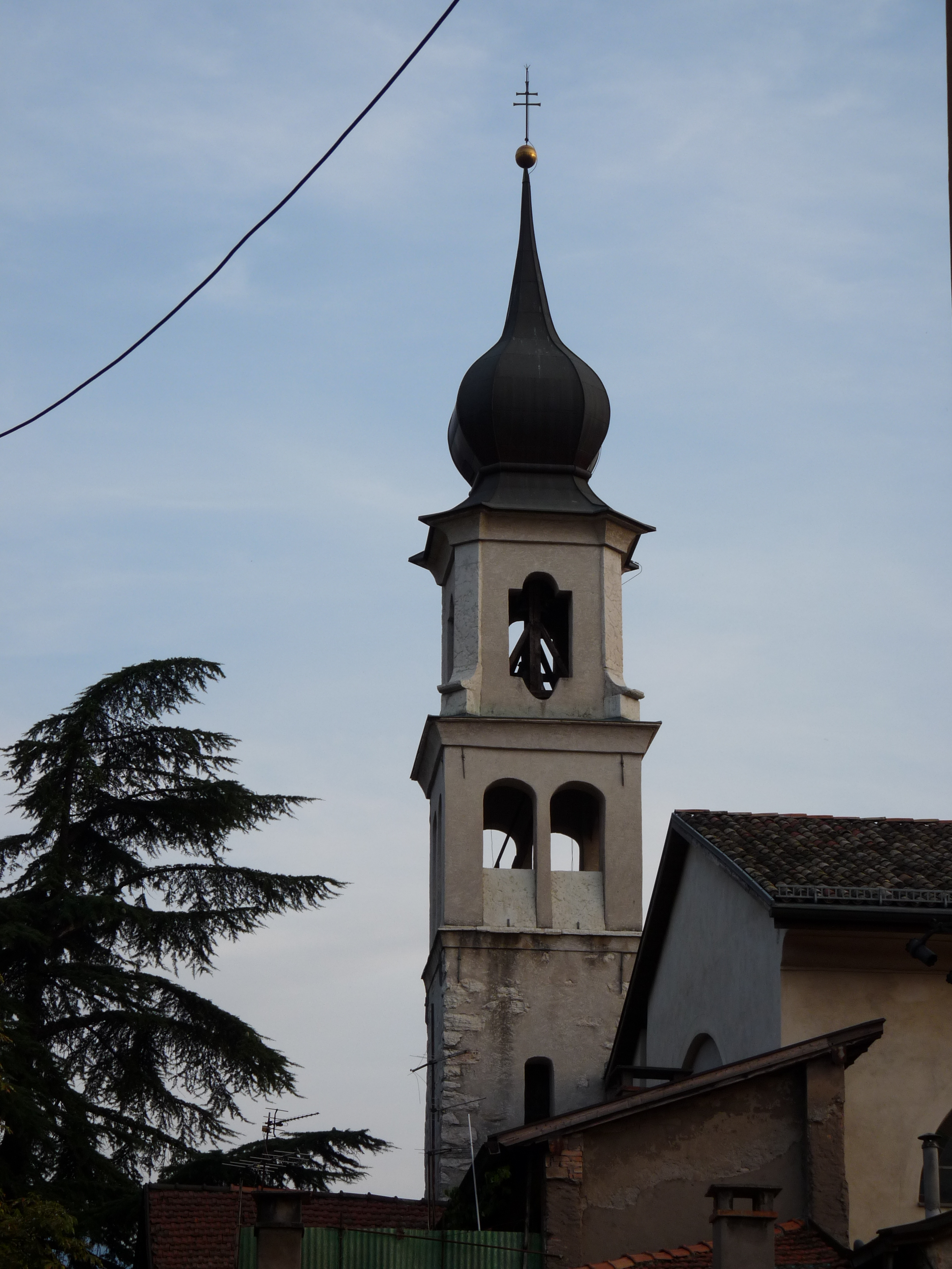 Trento (Italy): church tower of the church of San Marco